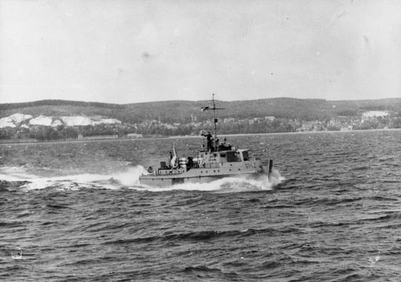 Border patrol boat of the Border Police of the GDR off the island of Rügen, 14 December 1955